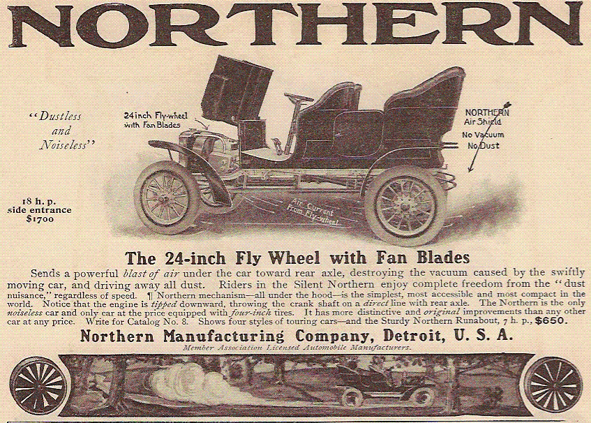 1905 Northern Automobile Ad